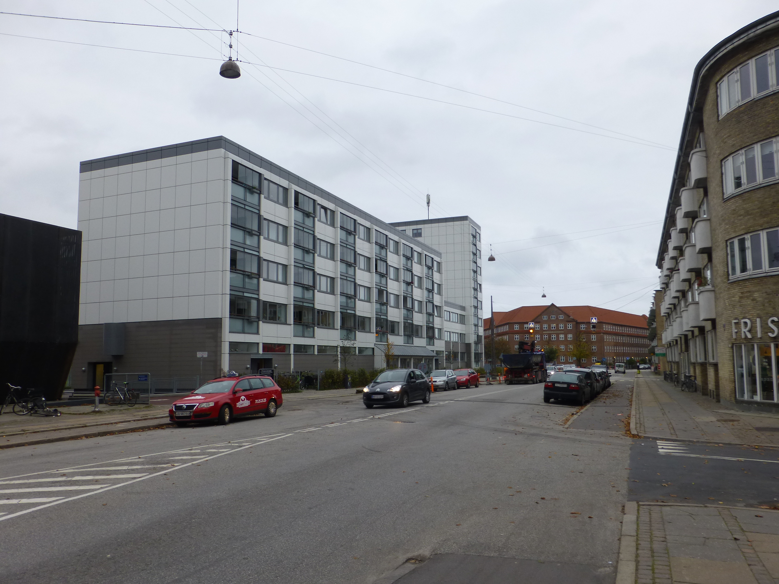 The street Bellmansgade in Østerbro in Copenhagen. At the left the housing cooperative A/B Bellmansgade 7-37.